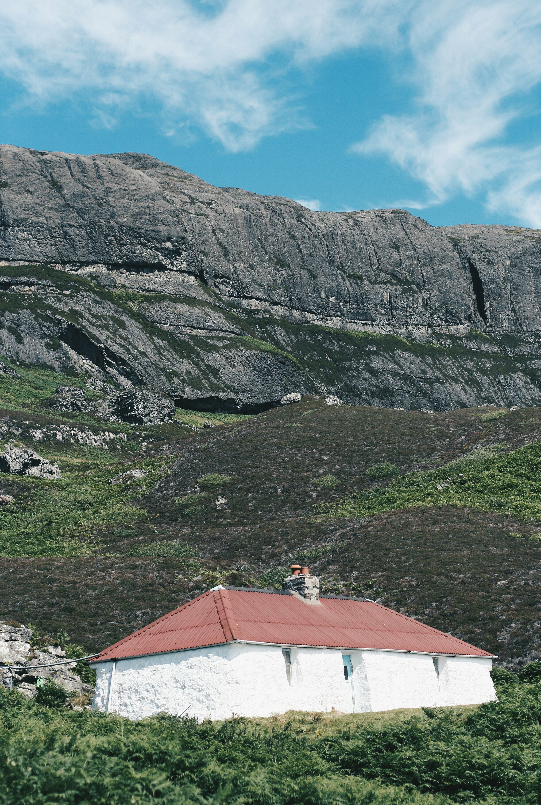 Shepherd's Bothy, Grulin